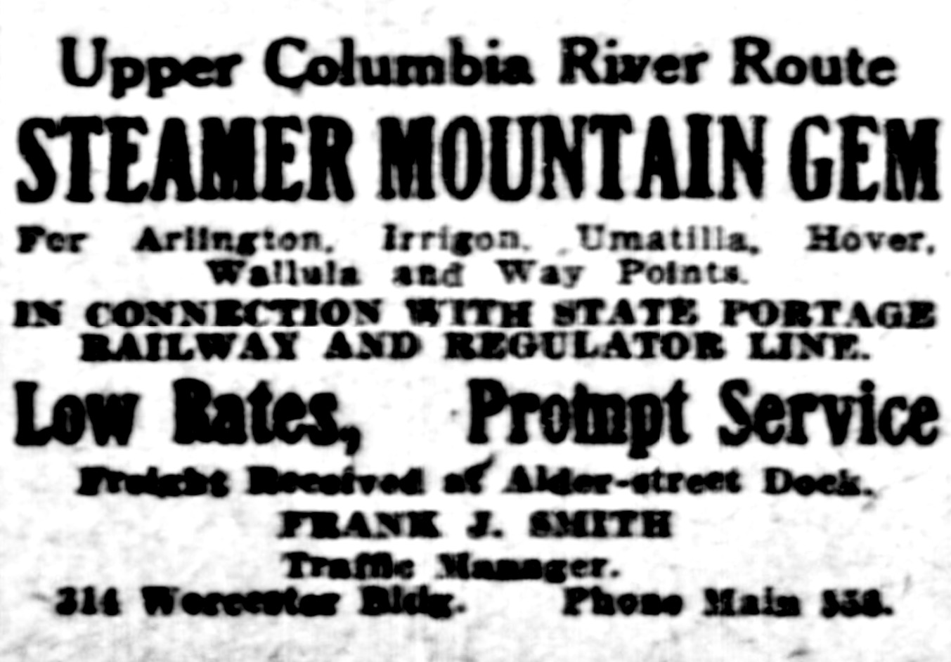 Advertisement for steamboat service by sternwheeler Mountain Gem.